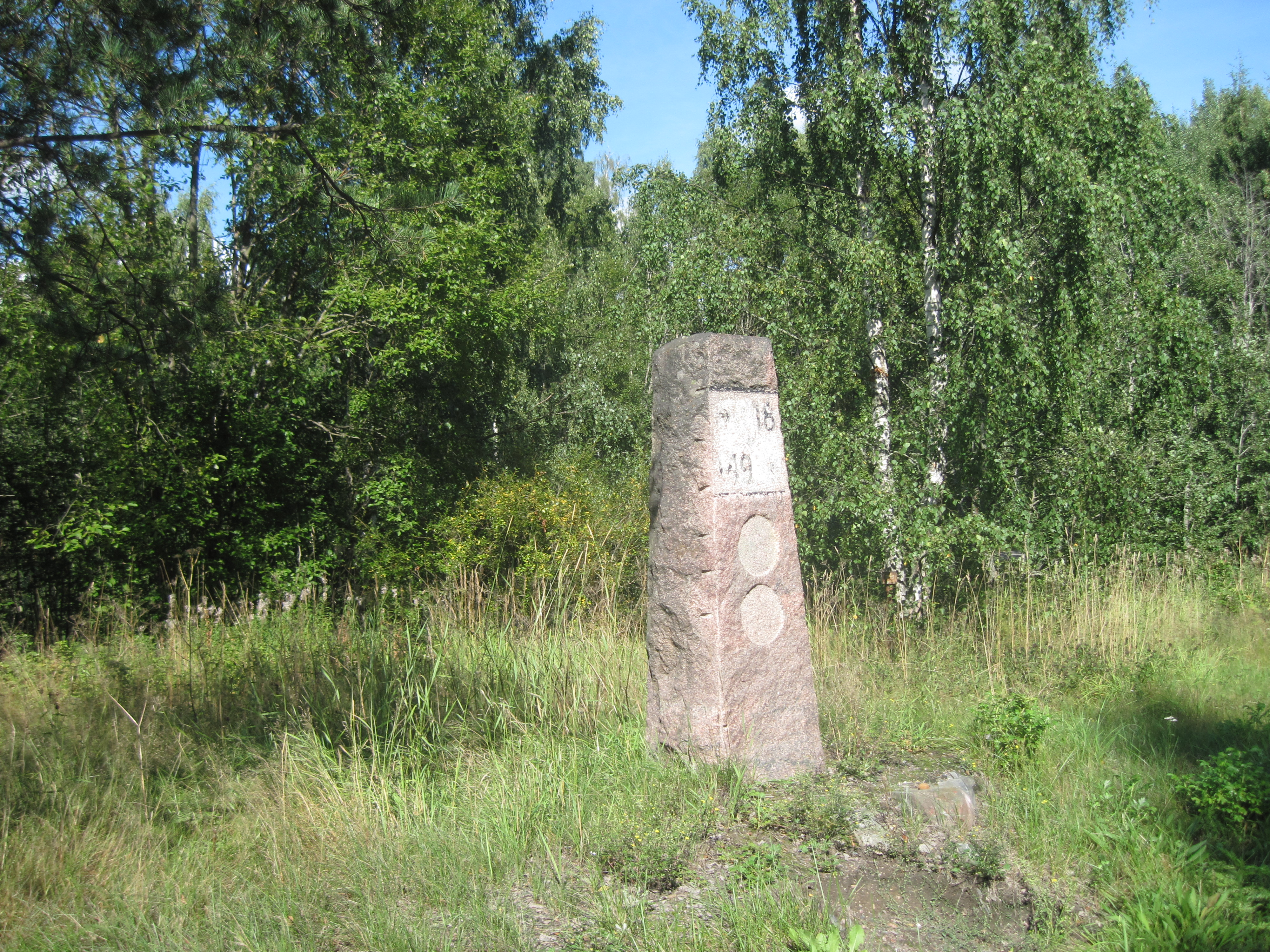 Kilometer stone 18/149 by the side of the old Helsinki–Turku road (regional road 110) in Espoo, Finland, 18 km to Helsinki, 149 km to Turku